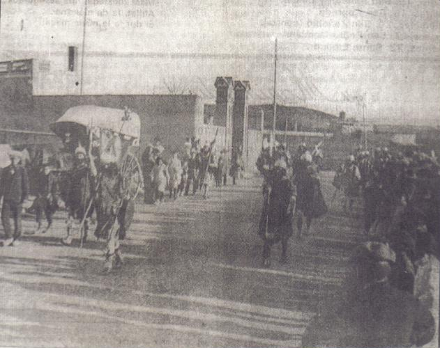 Original caption: “SANTA COLOMA. Processó del divendres sant ‘Els armats’ al seu pas per la Plaça de la Vila, any 1.912”